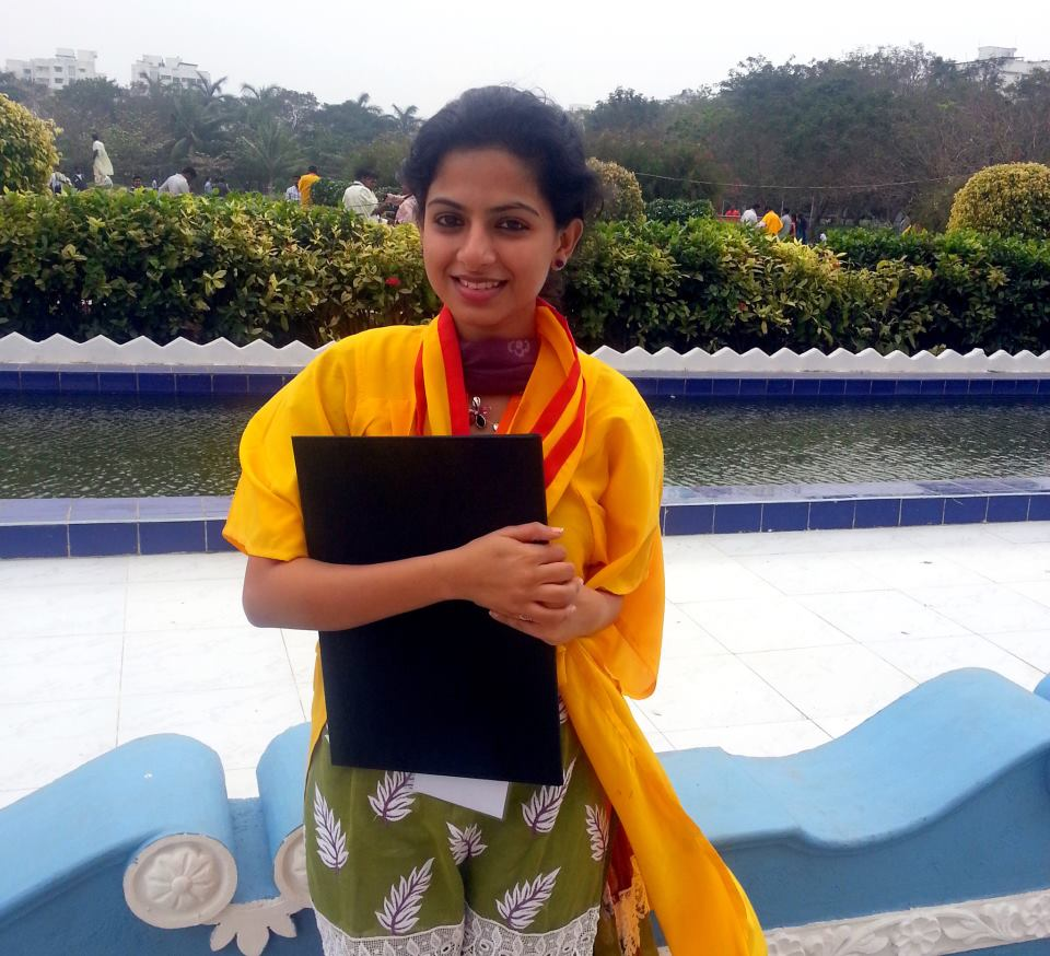 I studied with Aishwarya in SRM university and was a batchmate of her during 2008-2012.I took this photograph of her after she got her B.Tech degree in SRM in December 2012.Wish her best of luck!!! Other information I studied with Aishwarya in SRM university and was a batchmate of her during 2008-2012.I took this photograph of her after she got her B.Tech degree in SRM in December 2012.Wish her best of luck!!!